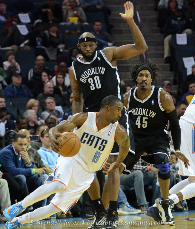 Charlotte Bobcats' Ben Gordon is defended by Brooklyn Nets' Reggie Evans and Gerald Wallace.